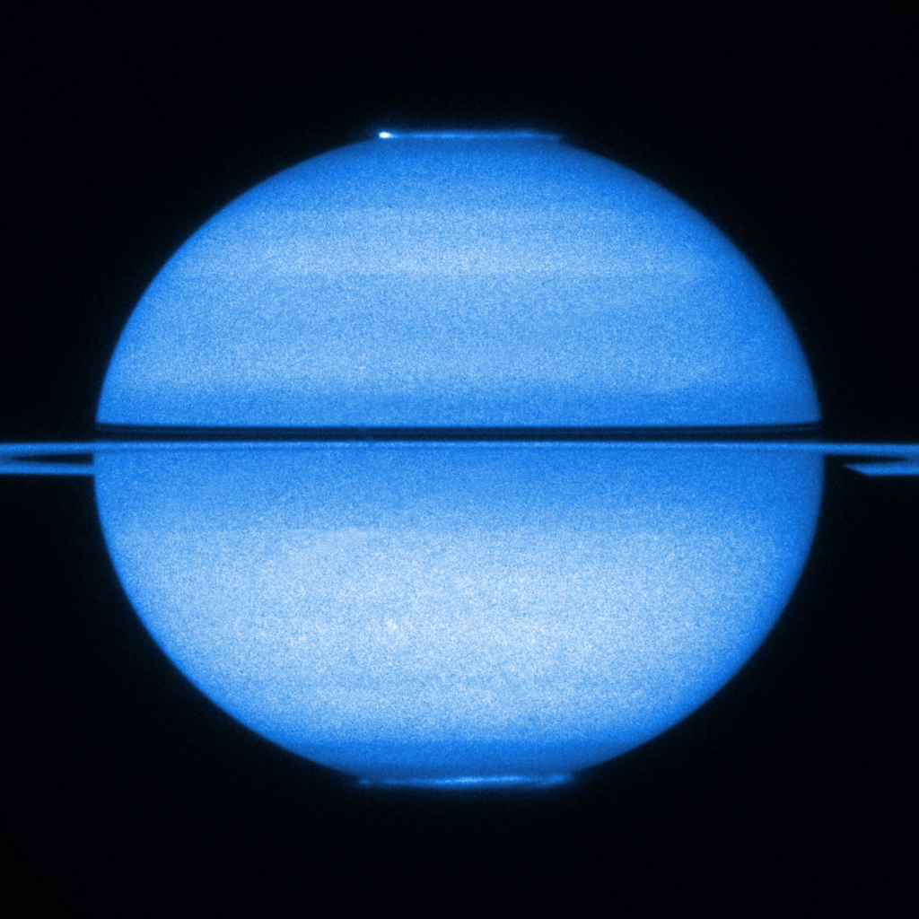 Image of Saturn and its polar aurorae from vertically above its equator in light of 115 and 125 nanometres of wavelength (ultraviolet light) taken by the Hubble Space Telescope in 2009. In January and March 2009, astronomers using NASA's Hubble Space Telescope took advantage of a rare opportunity to record Saturn when its rings were edge-on, resulting in a unique movie featuring the nearly symmetrical light show at both of the giant planet's poles. It takes Saturn almost thirty years to orbit the Sun, with the opportunity to image both of its poles occurring only twice during that time. The light shows, called aurorae, are produced when electrically charged particles race along the planet's magnetic field and into the upper atmosphere where they excite atmospheric gases, causing them to glow. Saturn's aurorae resemble the same phenomena that take place at the Earth's poles.